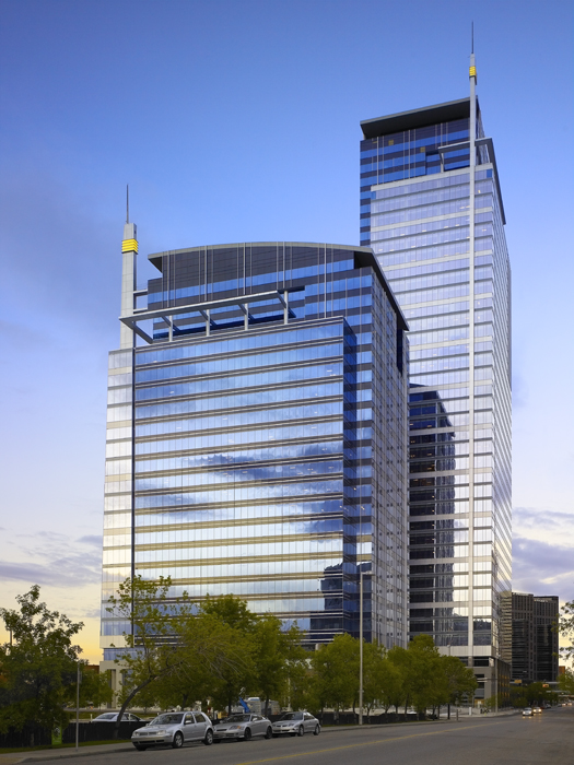 View of the 1.2 million square foot Centennial Place AAA office complex in Calgary.